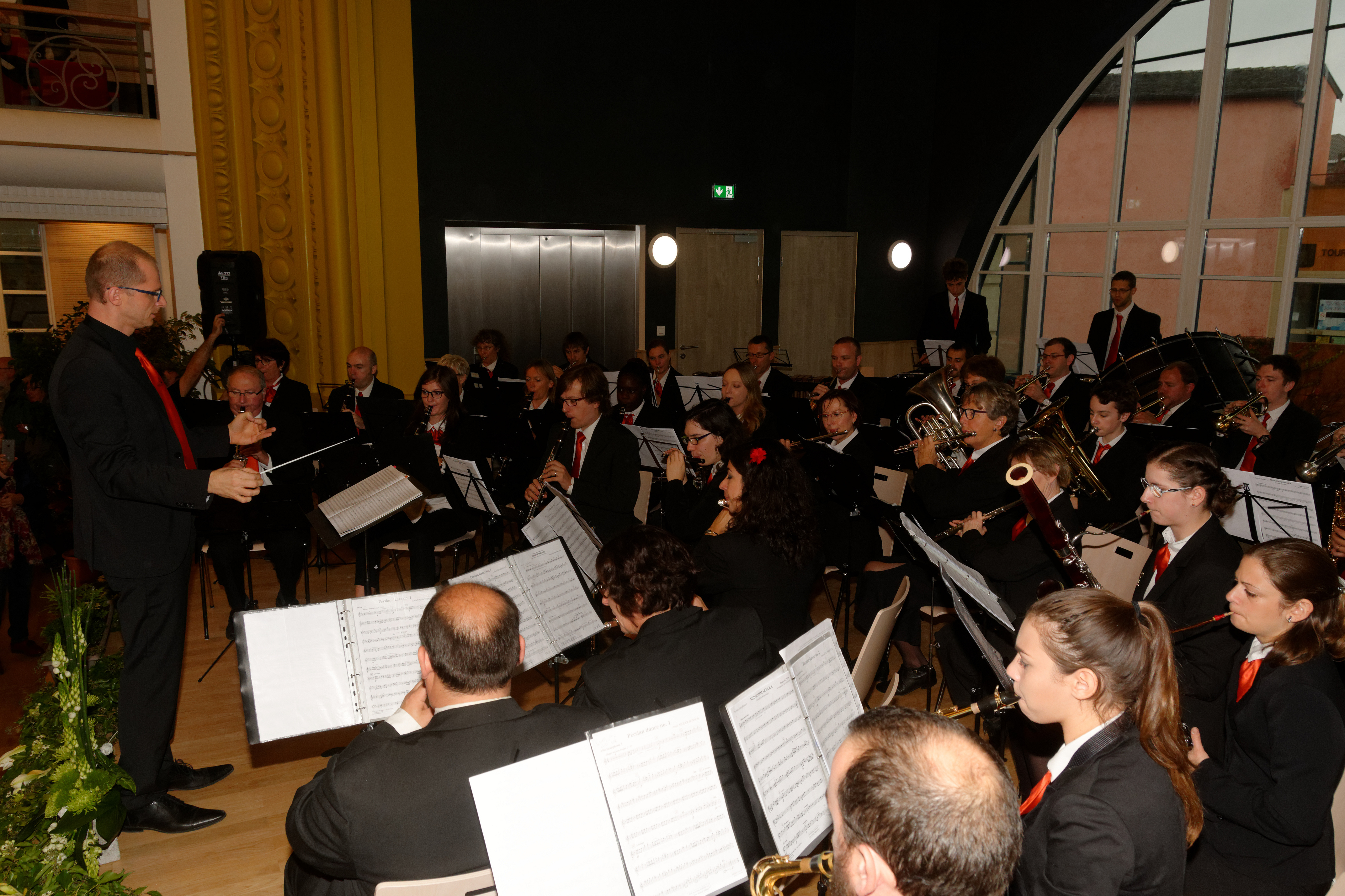 Personality rights warningAlthough this work is freely licensed or in the public domain, the person(s) shown may have rights that legally restrict certain re-uses unless those depicted consent to such uses. In these cases, a model release or other evidence of consent could protect you from infringement claims.